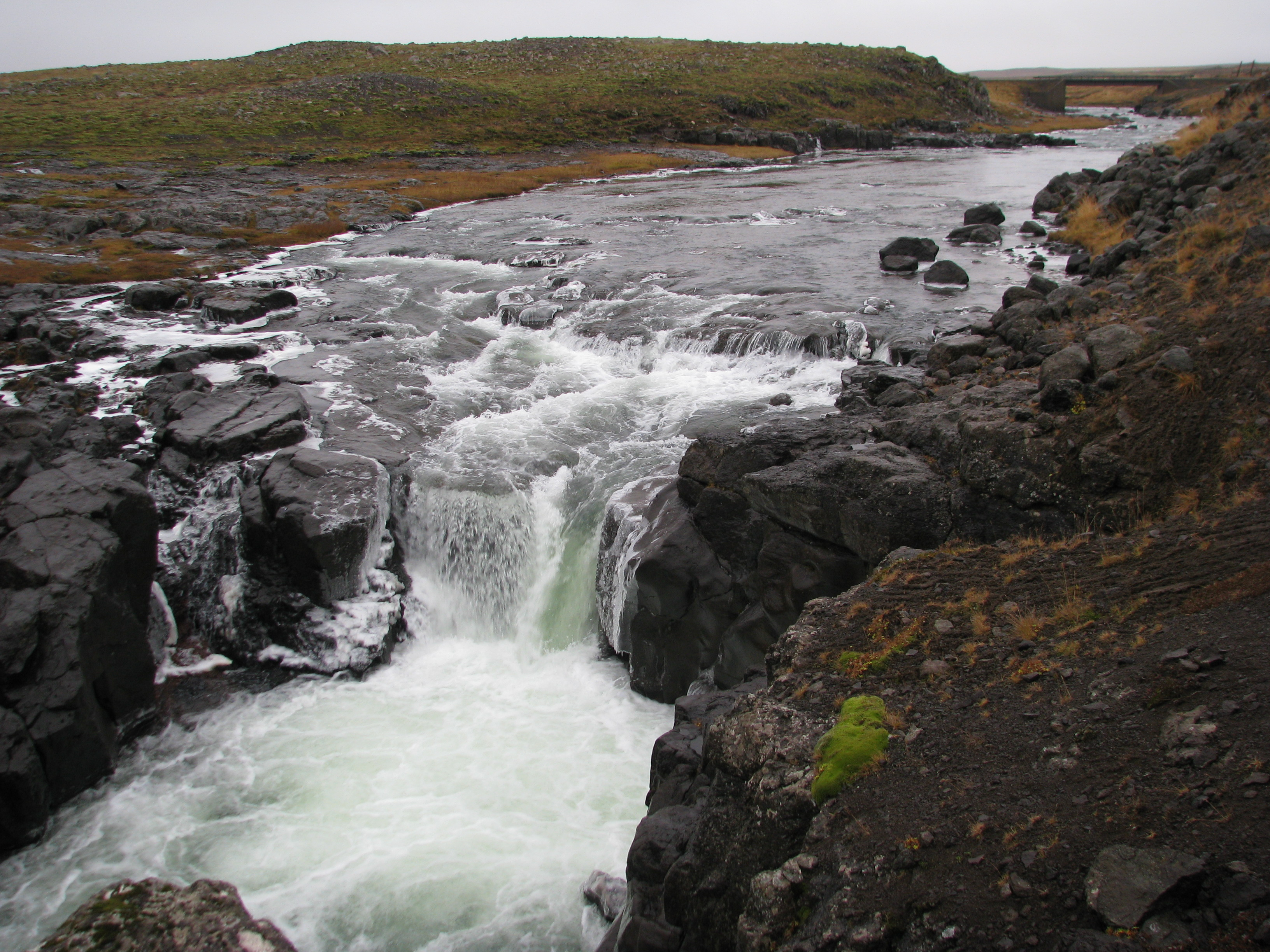 Kerafossar, a waterfall in North Iceland.